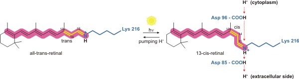 Mechanism of retinal action in protons pumping by bacteriorhodopsin in halophilic bacteria Halobacterium salinarum (syn. H. halobium).